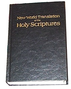 Photograph of cover of JW "New World Translation" of Bible